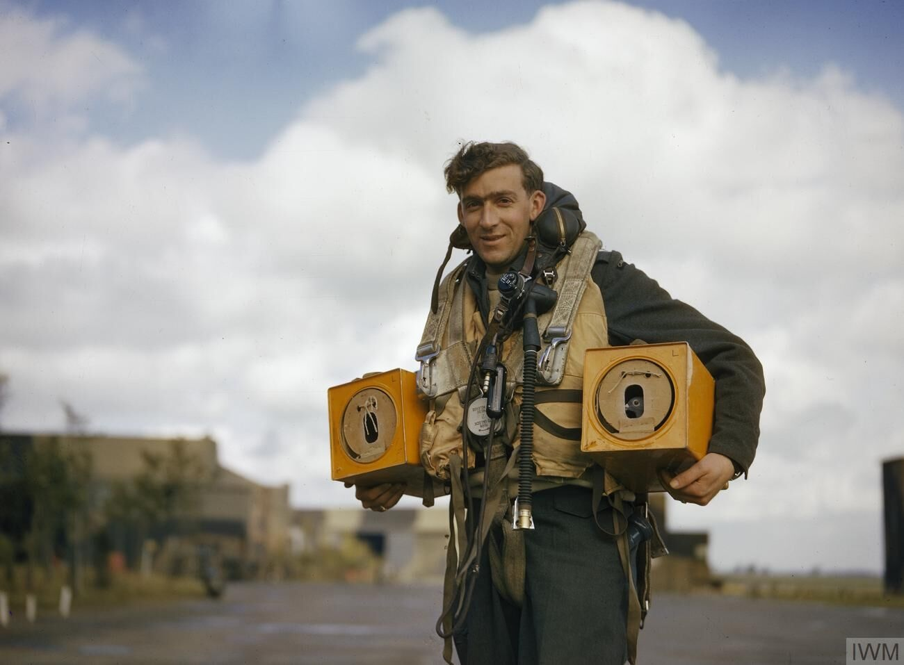 IWM caption : Canadian PO (A) S Jess, wireless operator of an Avro Lancaster bomber operating from Waddington, Lincolnshire carrying two pigeon boxes. Homing pigeons served as a means of communications in the event of a crash, ditching or radio failure.